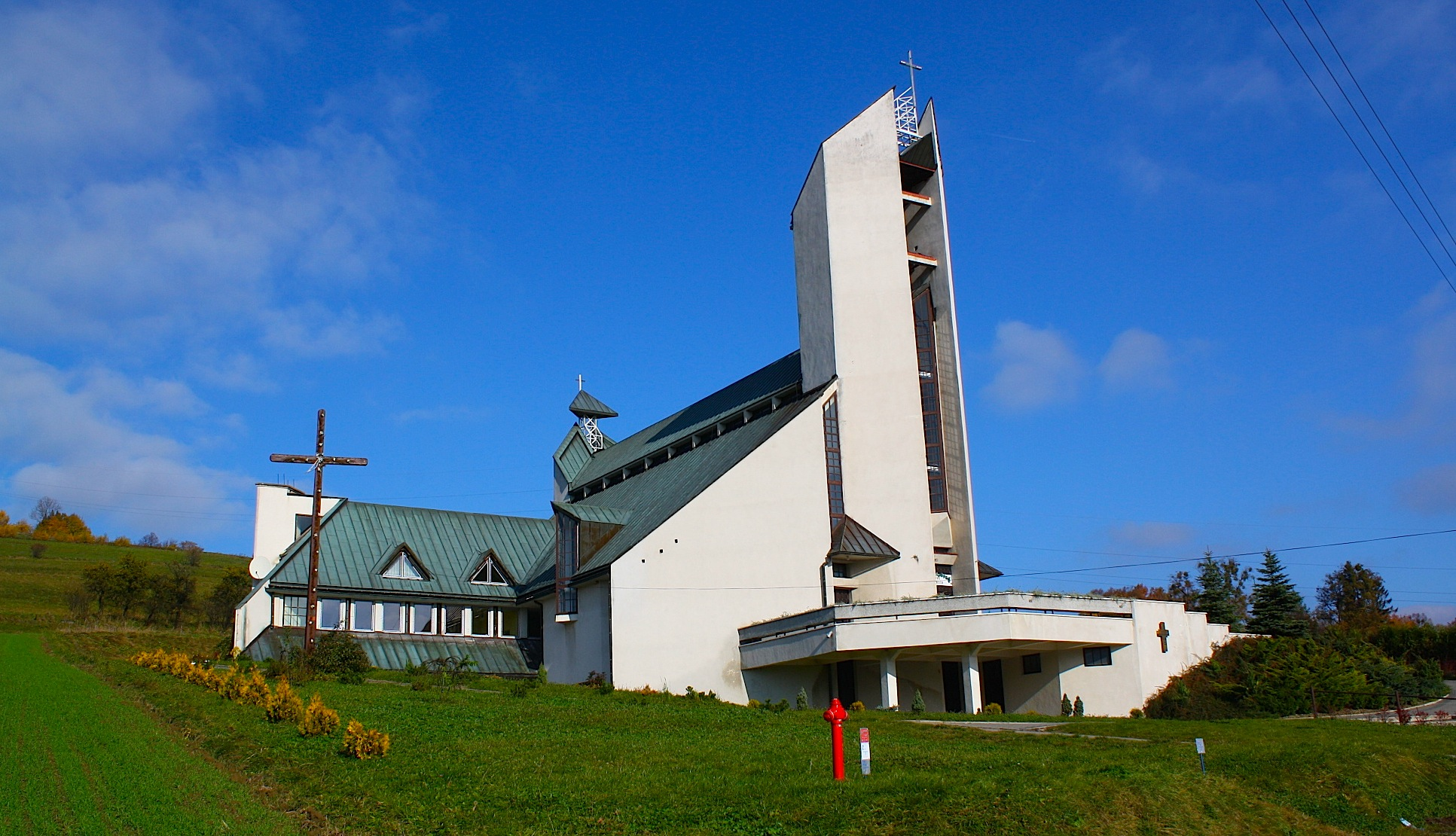 Our Lady of Częstochowa church in Śleszowice, Poland